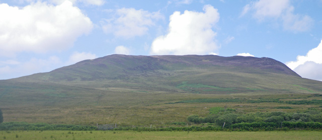 Level pasture leading to the severe slopes of Beinn Bheigier In the background are the steep southeast facing slopes of Beinn Bheigier.